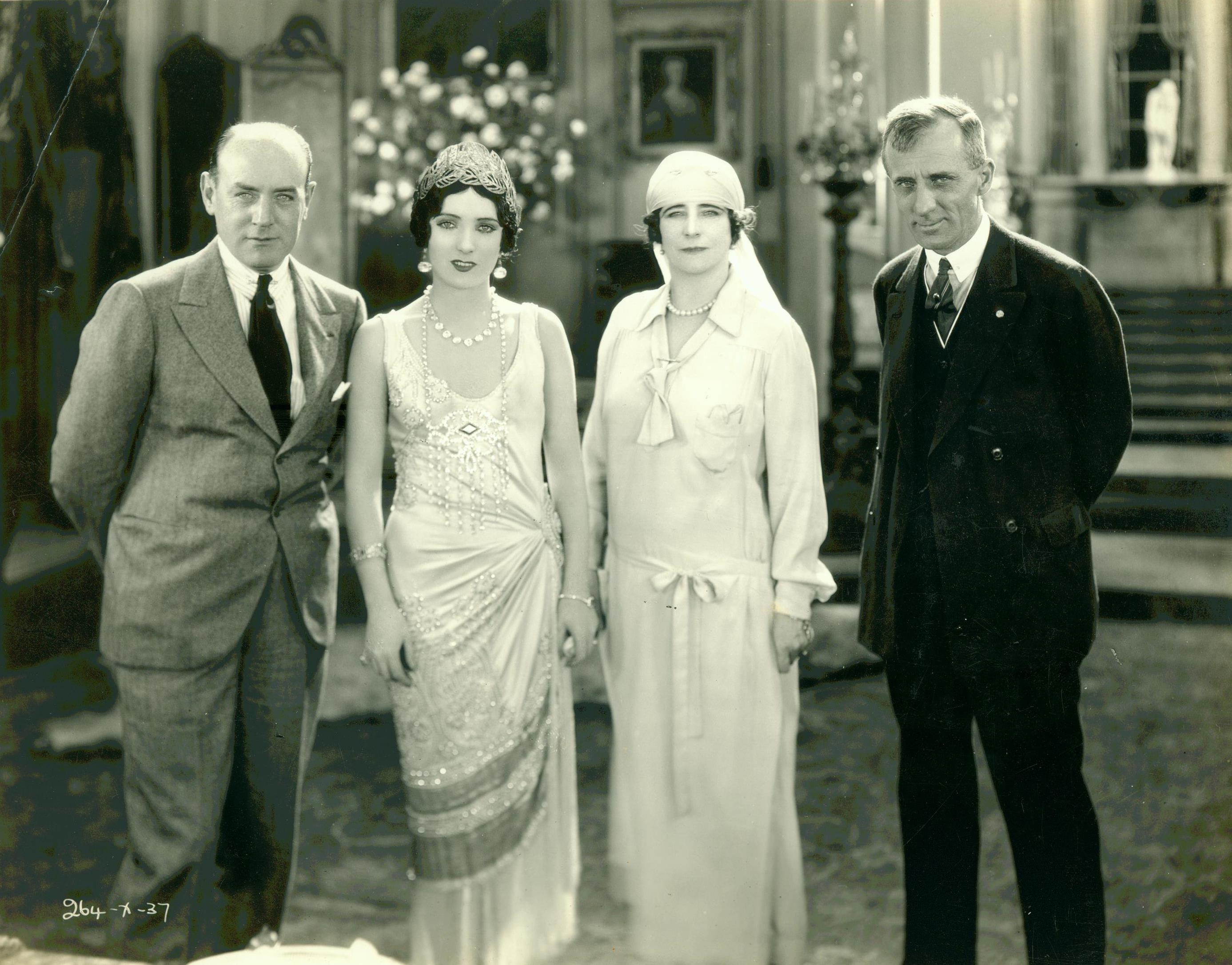 Smedley Butler (right) with John Francis Dillon, Pauline Starke, and Elinor Glyn. From the Smedley Butler Collection (COLL/3124), Marine Corps Archives & Special Collections OFFICIAL USMC PHOTOGRAPH. Publicity still with Butler, a guest on the set of the American film Love's Blindness (1926) starring Starke, with direction by Dillon and screenplay by Glyn. Film identification based on film still code 264 and costume of Starke matching other stills from the Metro-Goldwyn-Mayer film.